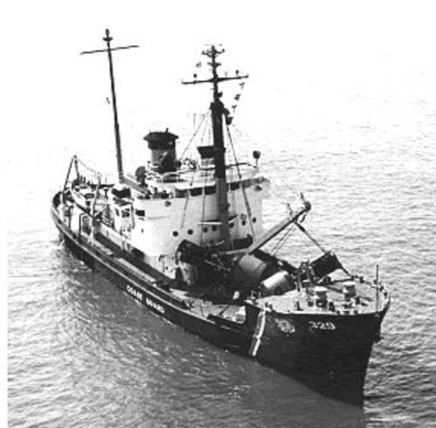 U.S Coast Guard WLM 188 ft. Buoy Tender.USCGC IVY (WLB/WAGL-329